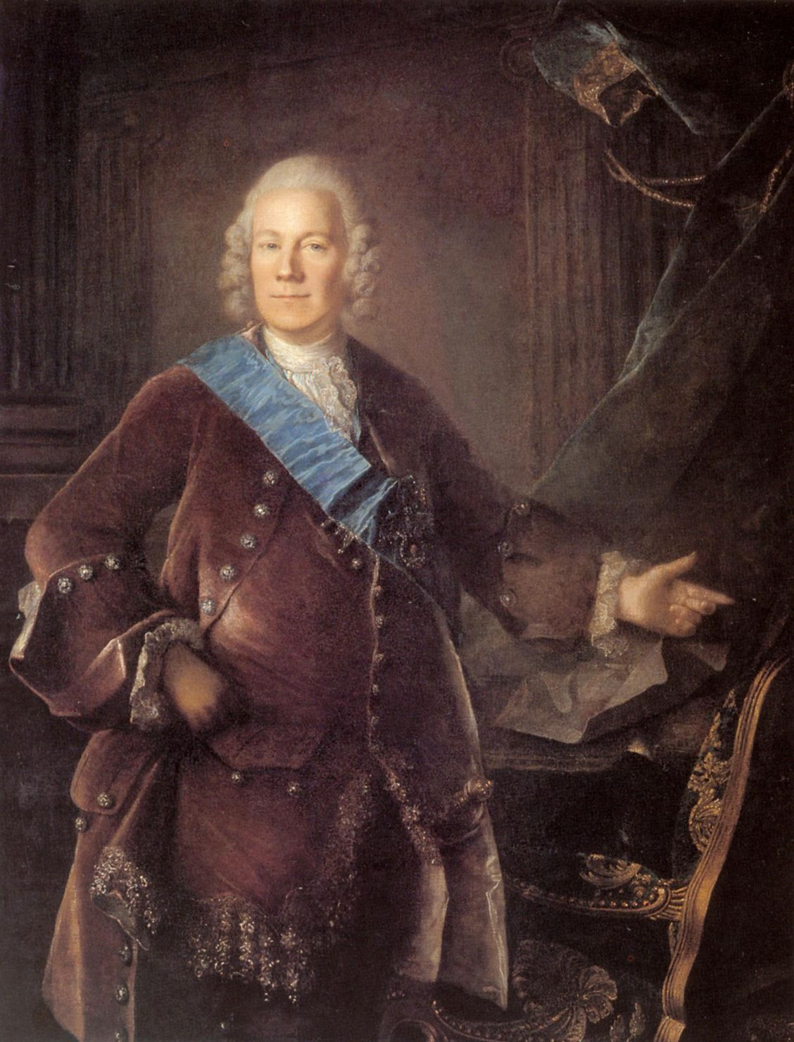 Portrait of Alexey Bestuzhev-Ryumin (1693-1768)